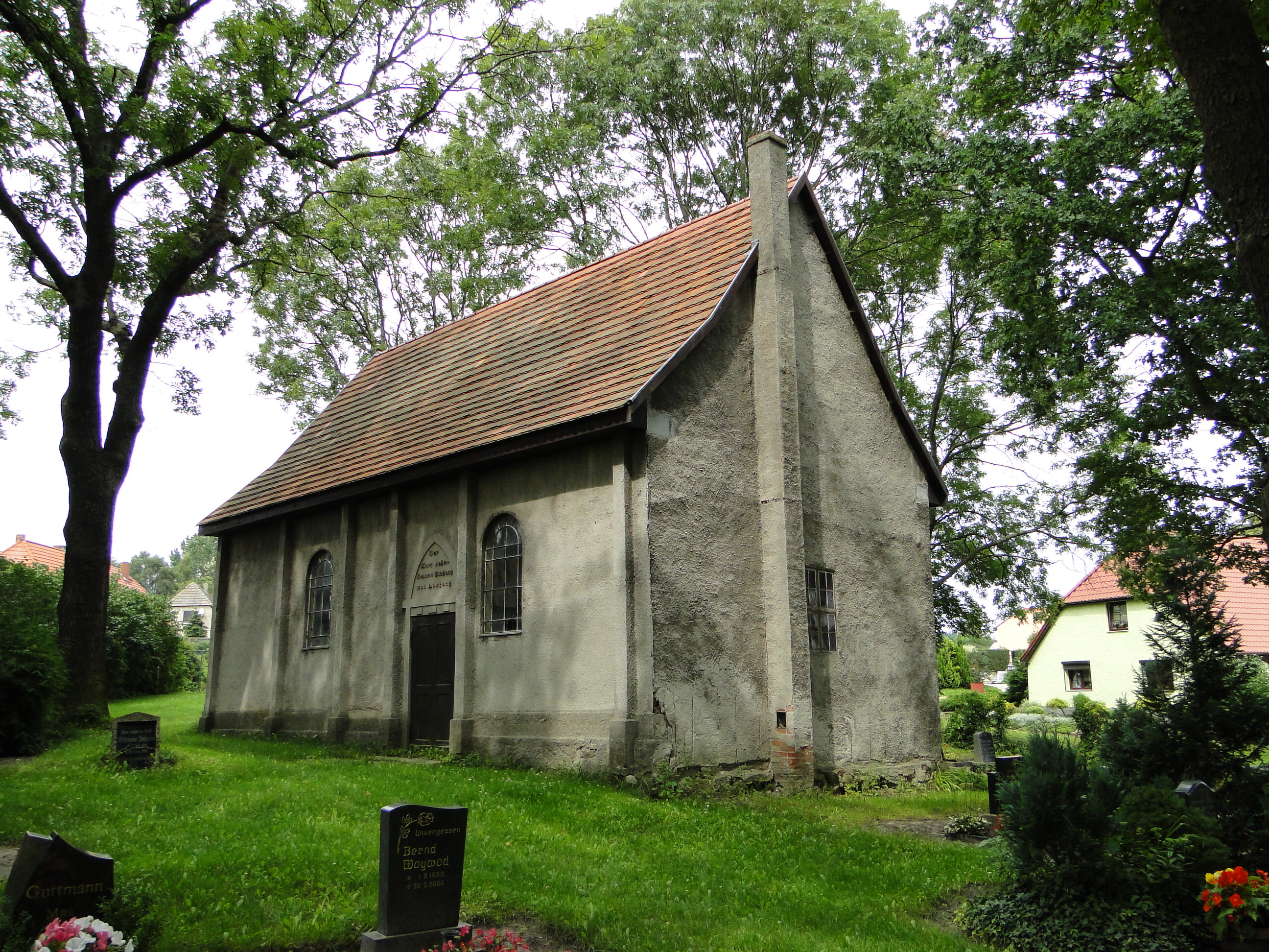 Church in Bassow, district Mecklenburg-Strelitz, Mecklenburg-Vorpommern, Germany